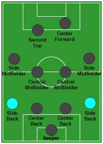 Position of SideBack